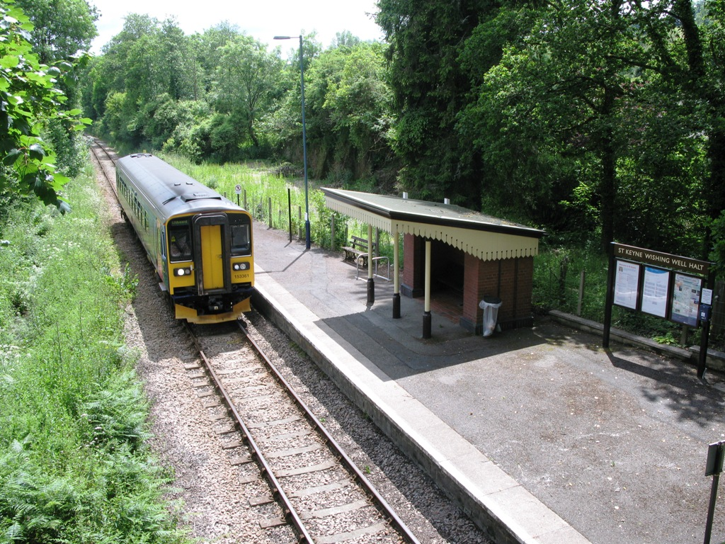 153361 at St Keyne Wishing Well Halt in Cornwall, United Kingdom, with a train from Looe to Liskeard. As this is a "request stop" and no one has signalled to get on or off, the train just passes through without stopping.